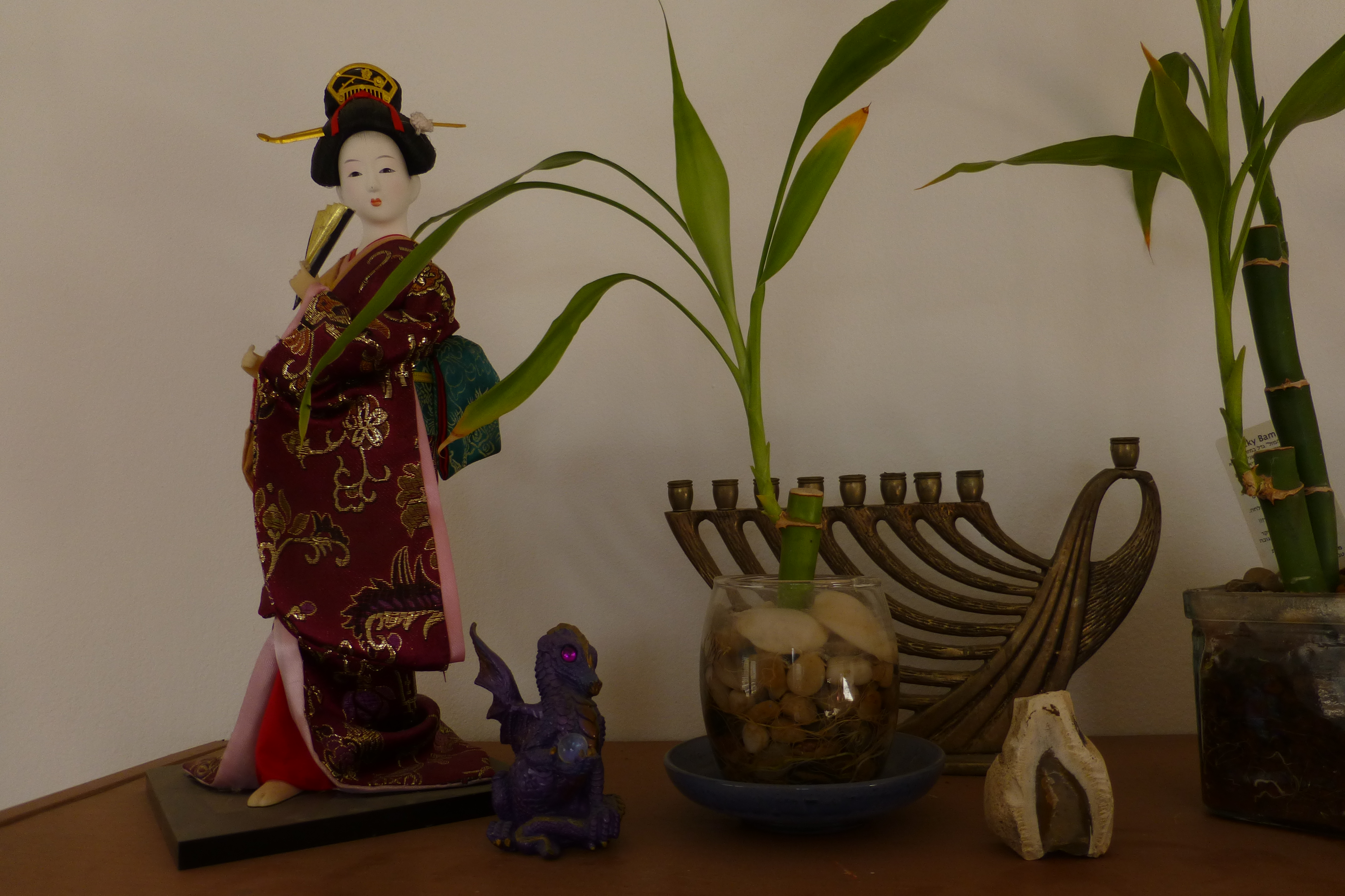 Hanukiah